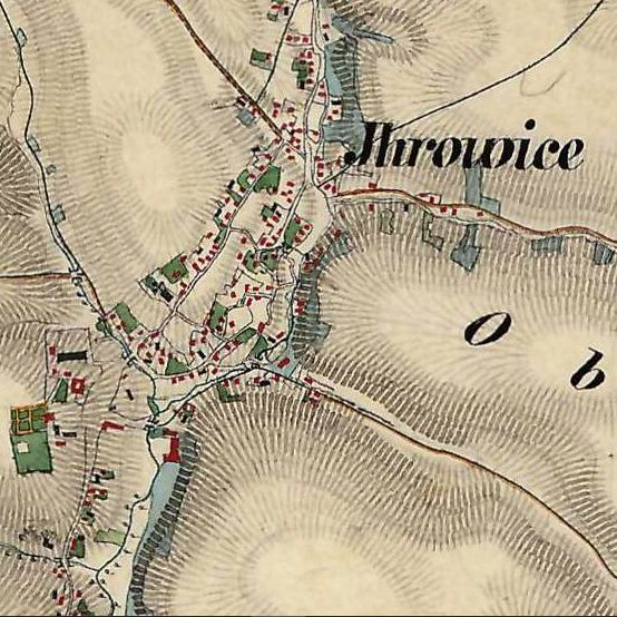 Ihrowice in 1869